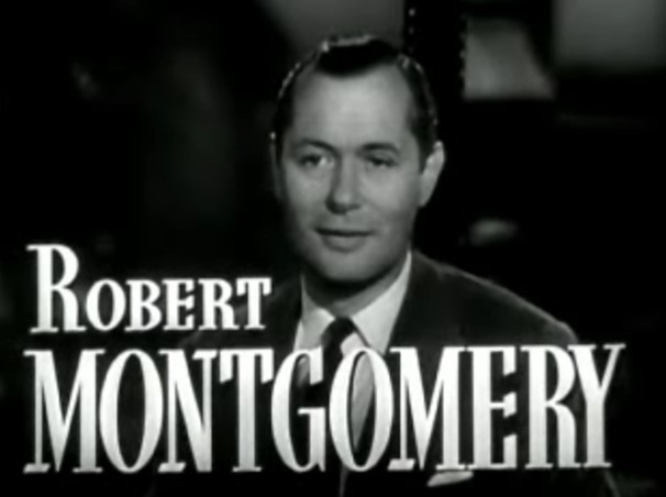 Cropped screenshot of Robert Montgomery from the trailer for the film Rage in Heaven